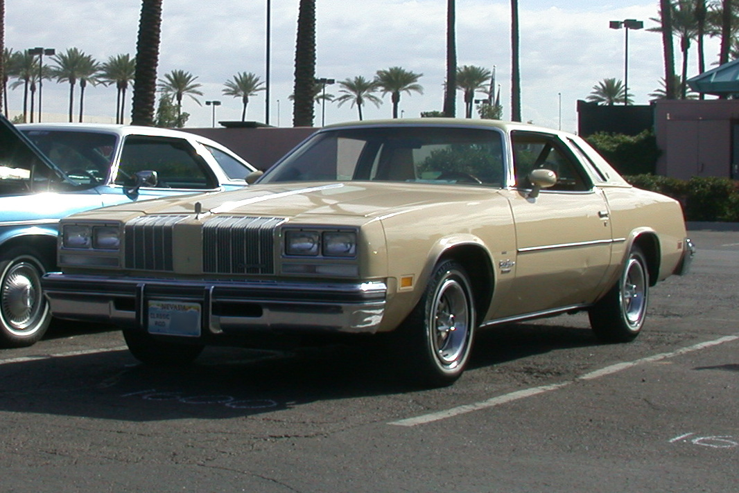 Taken at the 2004 Oldsmobile Club of Arizona car show in Scottsdale, AZ.